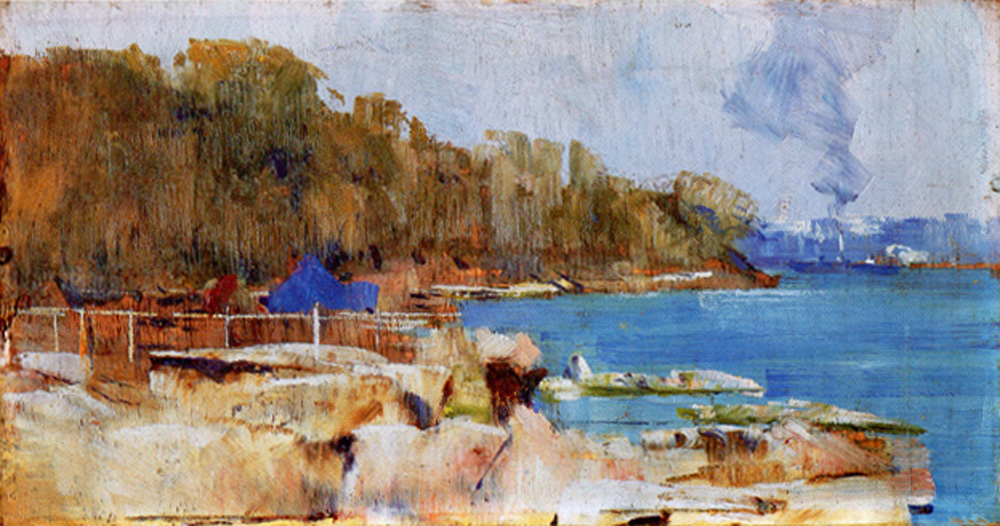 Painting by Arthur Streeton entitled "Sirius Cove" circa 1890